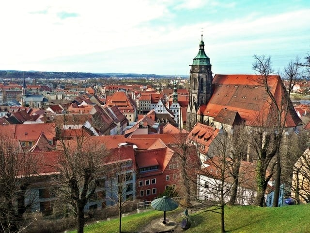 Pirna: historic centre.